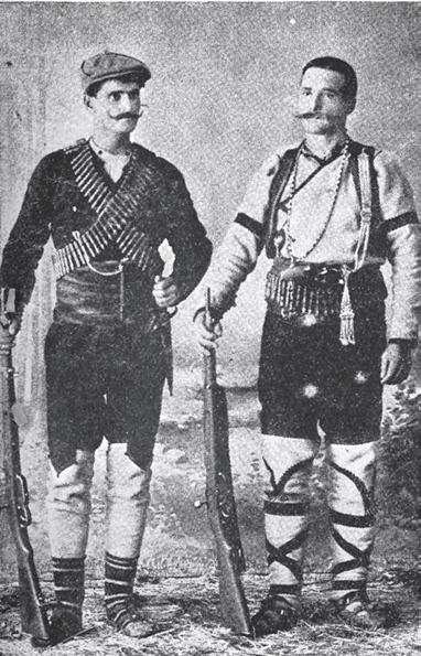 Portrait of IMARO voevoda S.Mladenov and other member